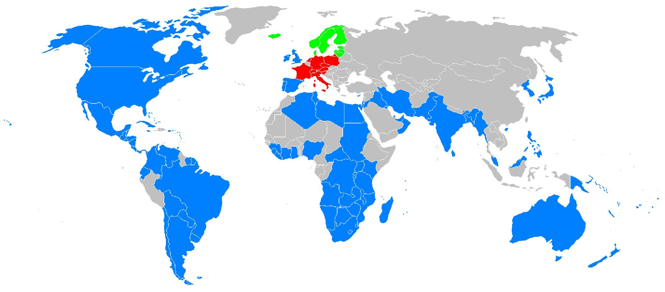 A world map showing the Provinces of the Anglican Communion (Blue).--Lord Balin 11:15, 7 February 2007 (UTC) Please replace with Image:Anglican Communion corrected.gif. --Quentin Smith 08:05, 19 June 2008 (UTC)